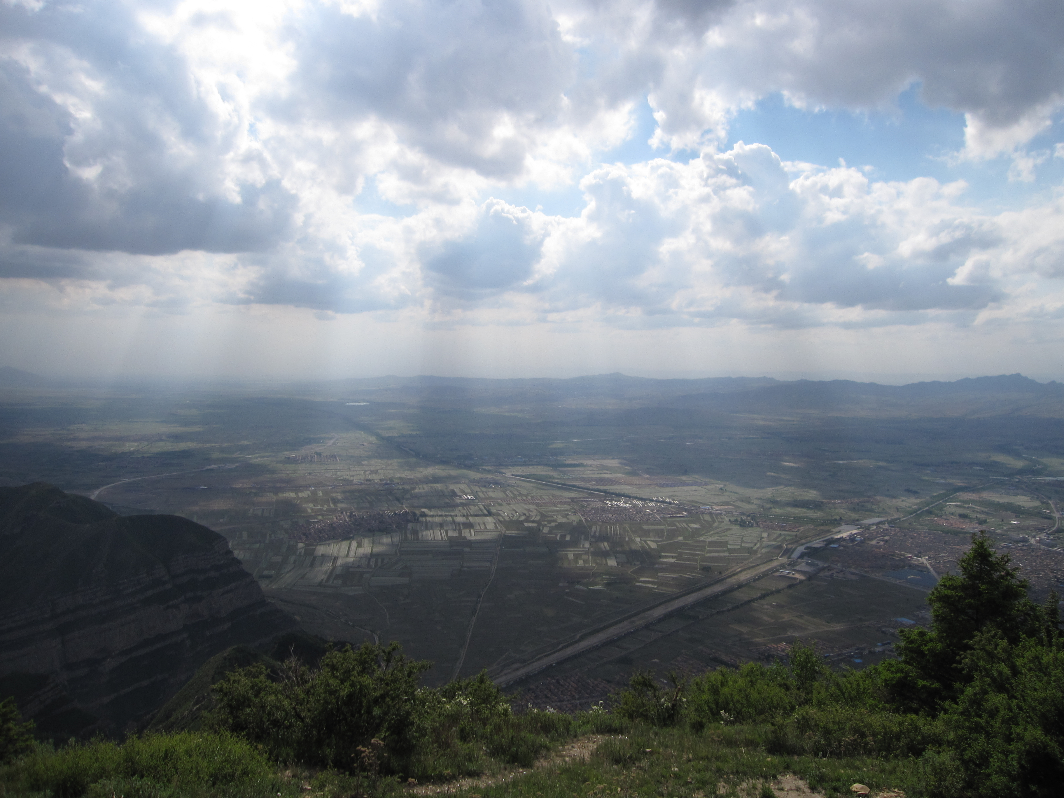 View from the summit of Heng Shan, Shanxi province, China. June 2011.